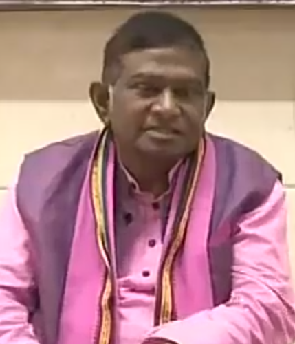 Ajit Jogi with Mayawati